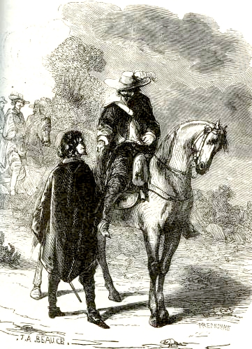 The three Musketeers passed behind his Eminence, who again enveloped his face in his cloak, and put his horse in motion, keeping at from eight to ten paces in advance of his companions. They soon arrived at the silent, solitary auberge. No doubt the host knew what illustrious visitor he expected, and had consequently sent intruders out of the way. At ten paces from the door the Cardinal made a sign to his attendant and the three Musketeers to halt; a saddled horse was fastened to the window shutter. The Cardinal knocked three times, and in a peculiar manner. A man, enveloped in a cloak, came out immediately, and exchanged some rapid words with the Cardinal; after which he mounted his horse, and set off in the direction of Surgeres, which was likewise that of Paris.